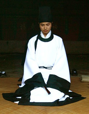 Panling lanshan (盤領襴衫) - Men's Chinese traditional clothing (hanfu)